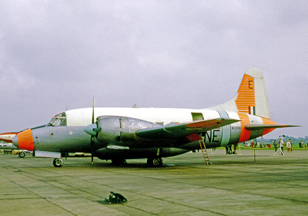 Vickers Varsity T.1 WL689 NE of the Royal Air Force College at RAF Coltishall in 1968